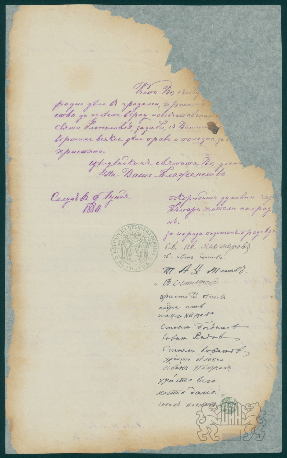 Election of New Bulgarian Municipality in Thessaloniki, 9 June 1880 - Page 2